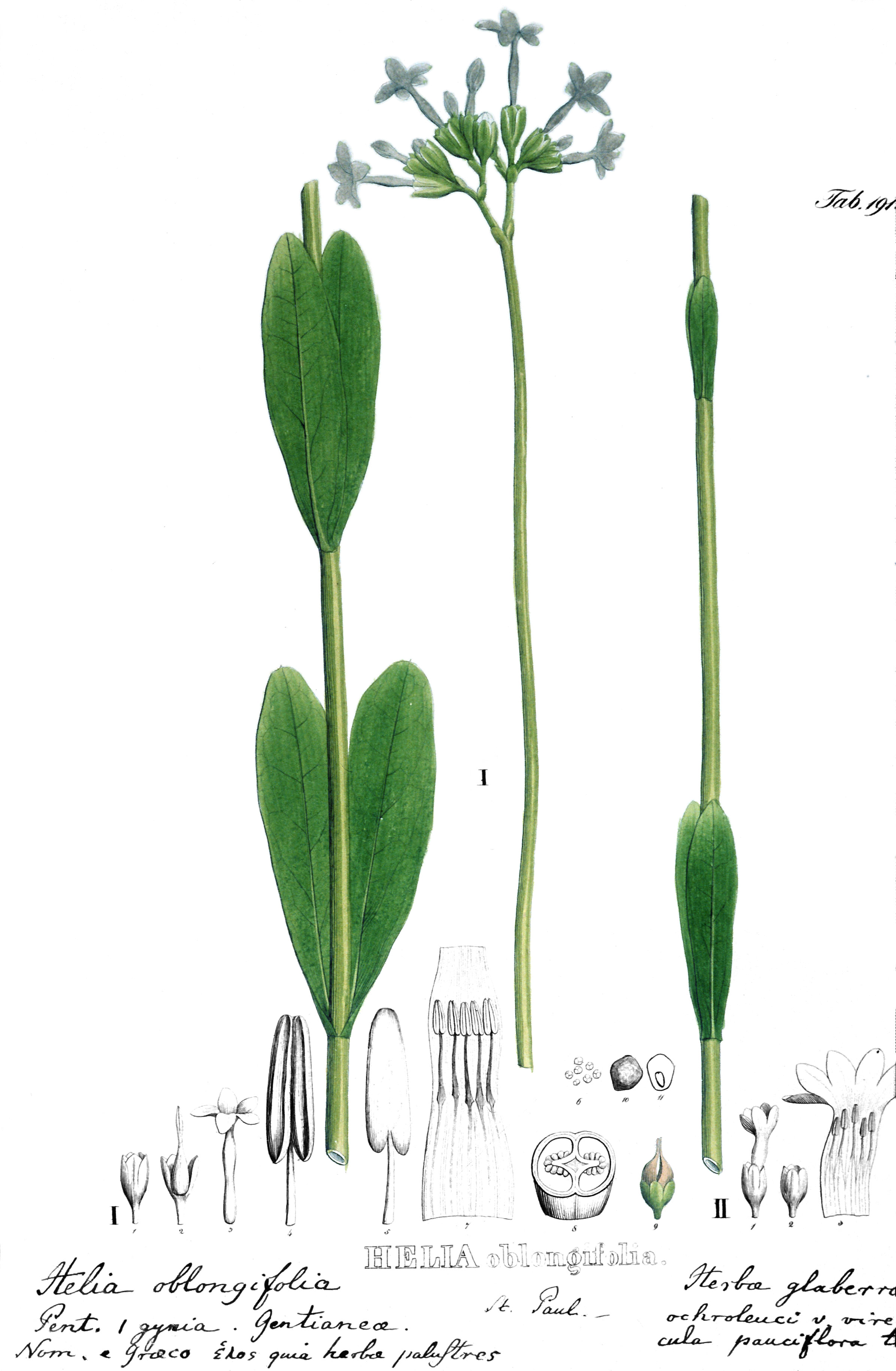 Tab 191 showing Helia oblongifolia from Nova genera et species plantarum quas in itinere per Brasiliam, vol. 2. V. Wolf, München.